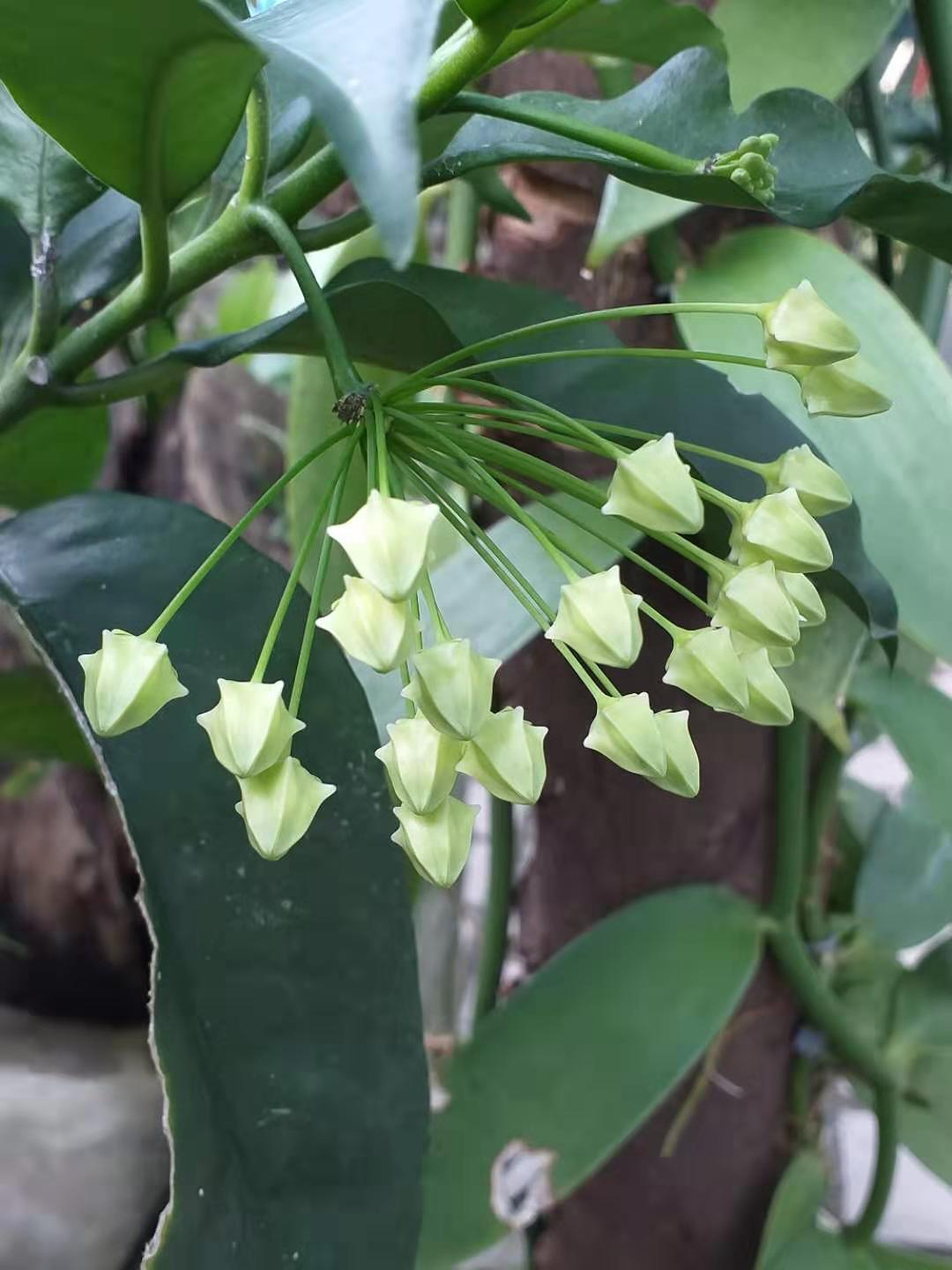 Flower buds. Botanical Garden of National Museum of Natural Science, Taichung, Taiwan.